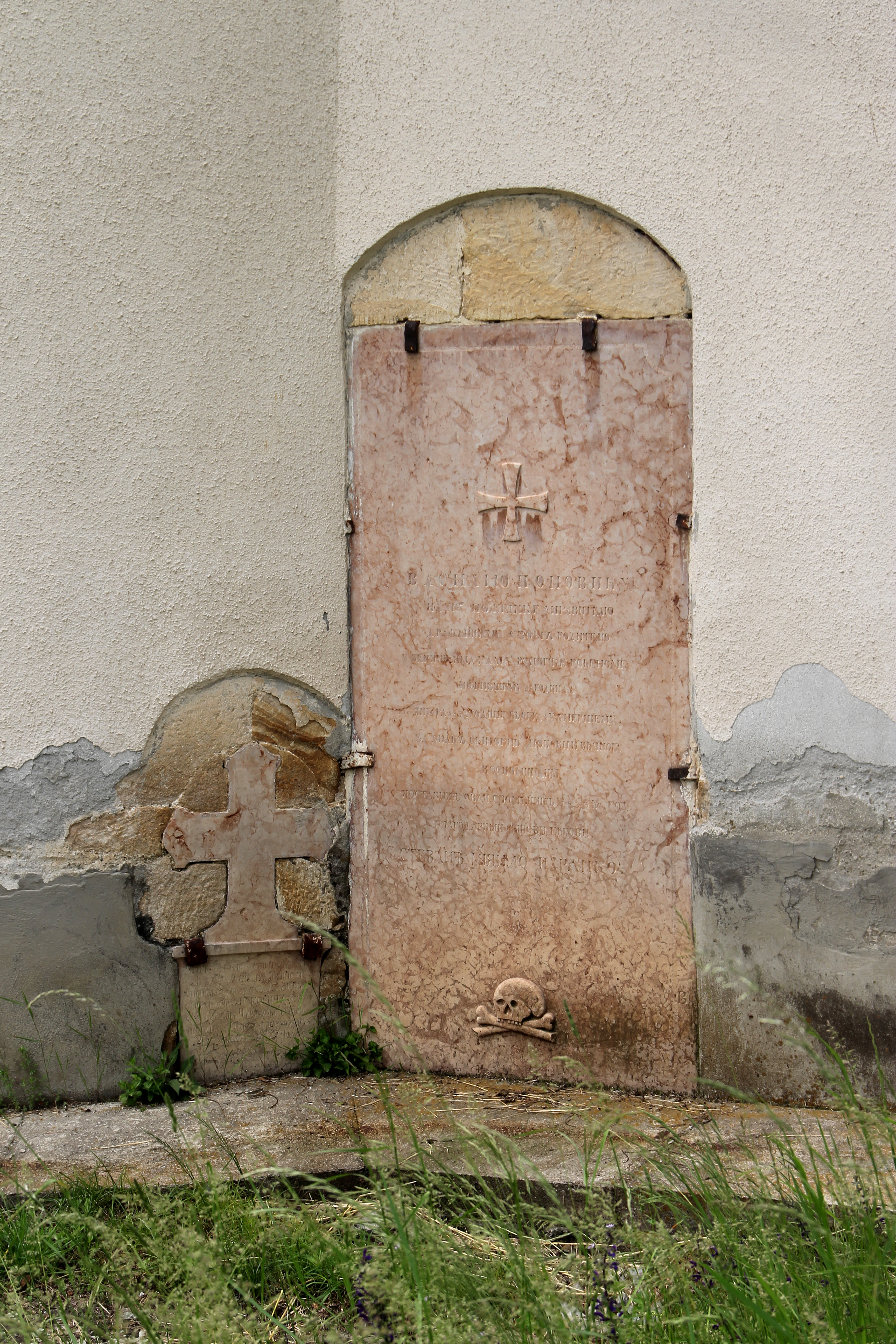 Tomb plate of knyaz Vasa Popovic on the facade of St. Demetrius's Church in Brezna, (the municipality of Gornji Milanovac), Serbia.